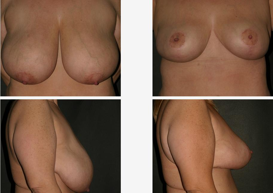 Reduction mammoplasty (breast reduction); 4-plate photograph. Pre-operative aspects of macromastia and ptosis (left); post-operative aspects, reduced breasts and lifted bust.